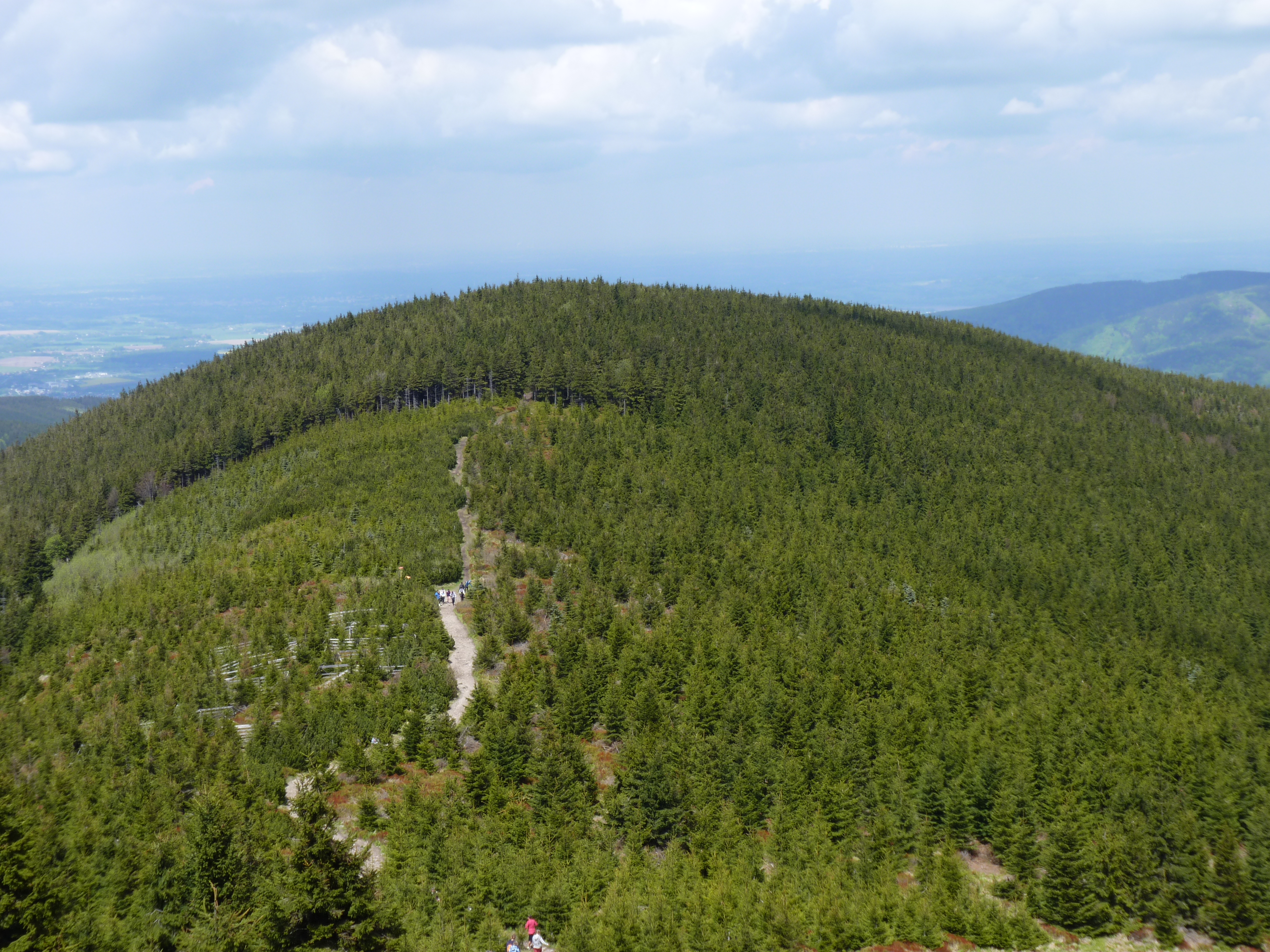 Malchor. Moravian-Silesian Beskids, Moravian-Silesian Region, Czech Republic Project: Chráněná území